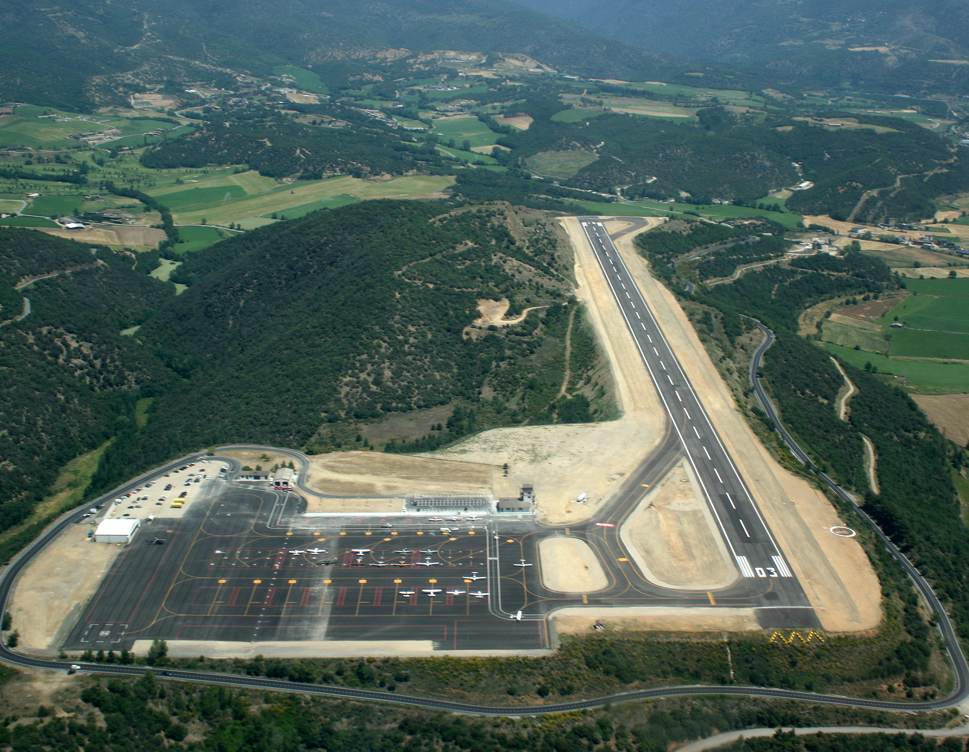 Pirineus - la Seu d'Urgell airport